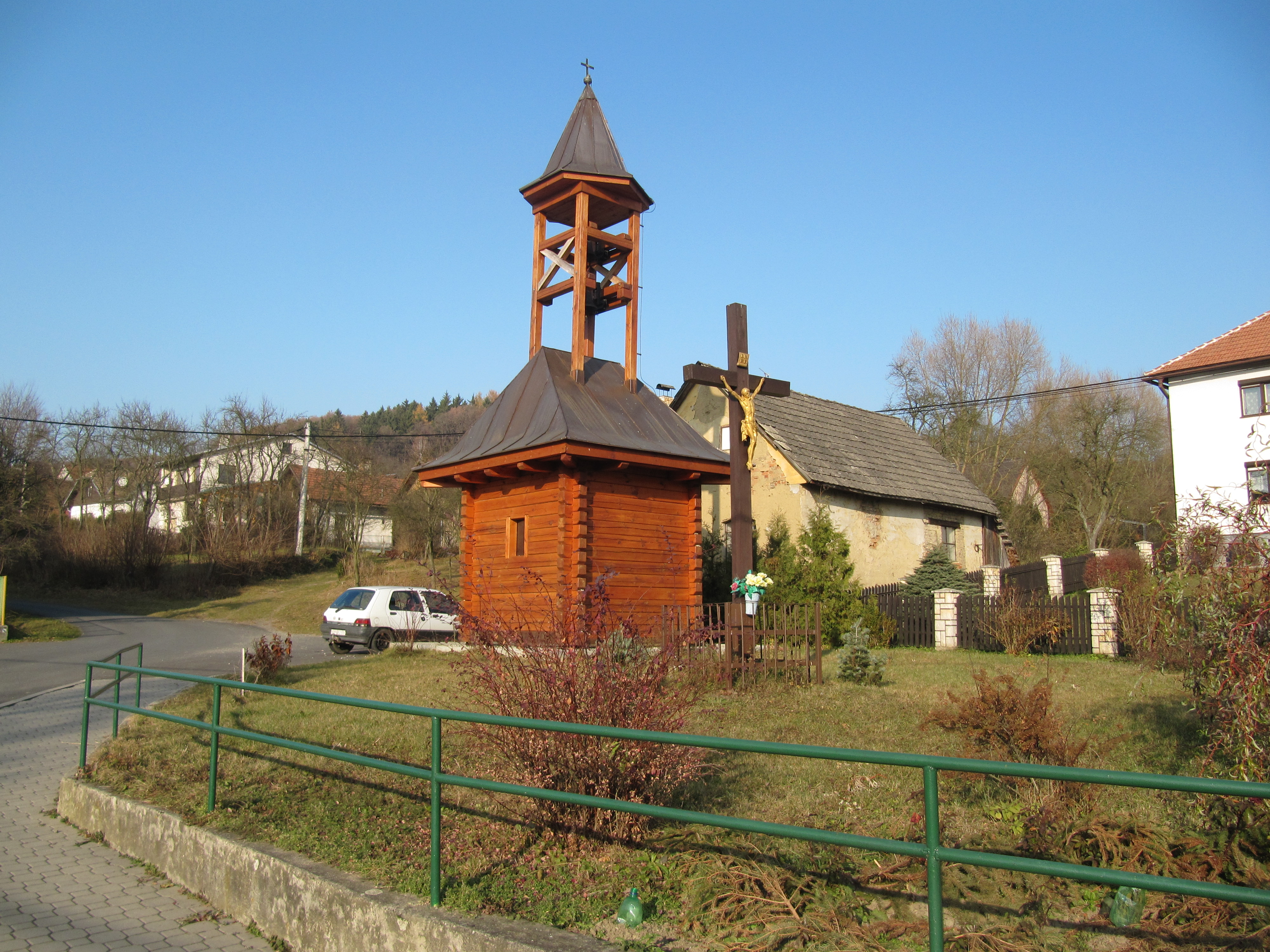 Lipová in Zlín District, Czech Republic. The wooden bell tower from 2009.